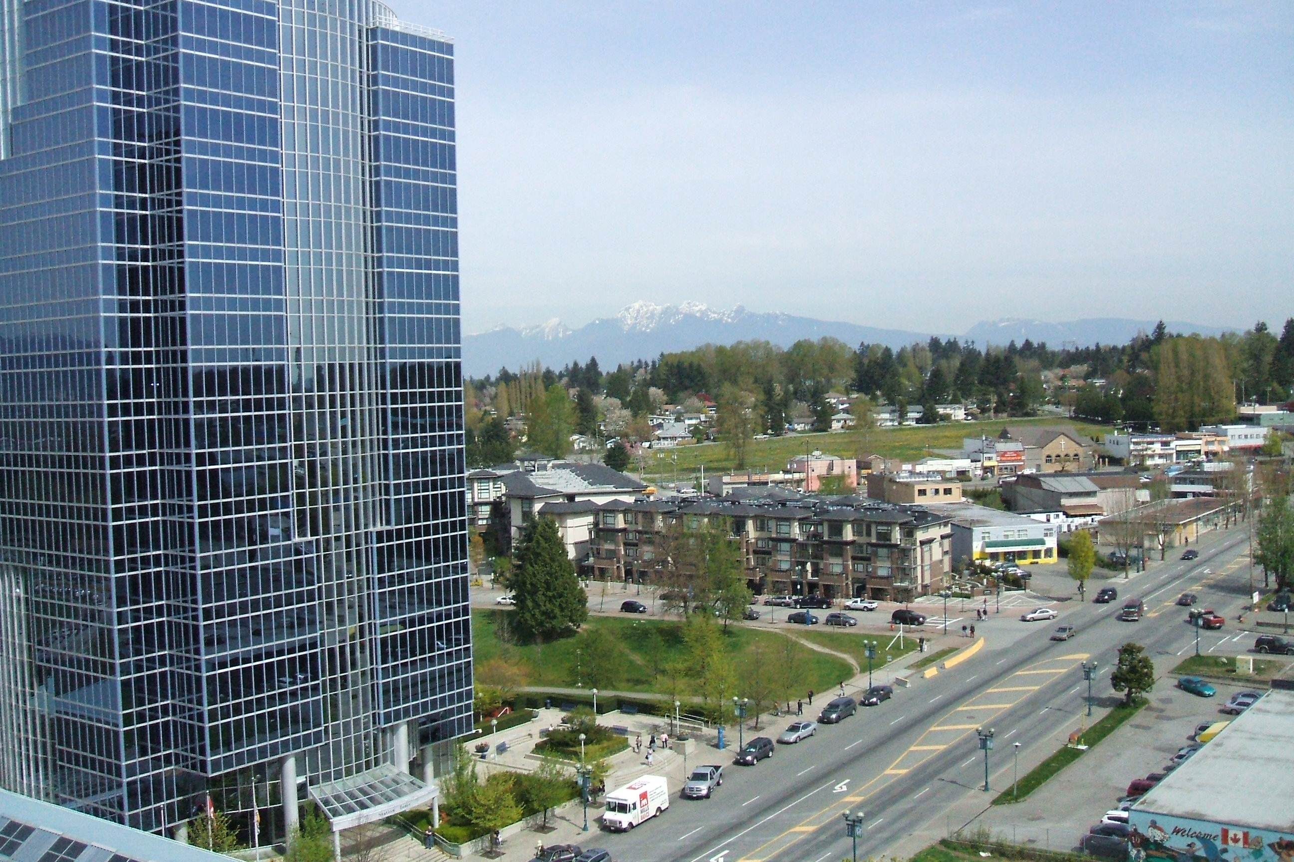 A splendid East facing view of the heart of Downtown Surrey Gateway along 108 Avenue and West Whalley Ring Road (or 134 Street) in North Surrey, BC, Canada, as taken from a High Rise tower. The Gateway Skytrain station is located just off to the left of my photo here. An office high rise tower is in the left side of my photo.